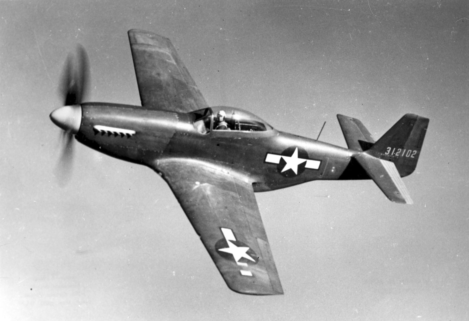 North American P-51D prototype in flight SN 43-12102; Modified P-51B